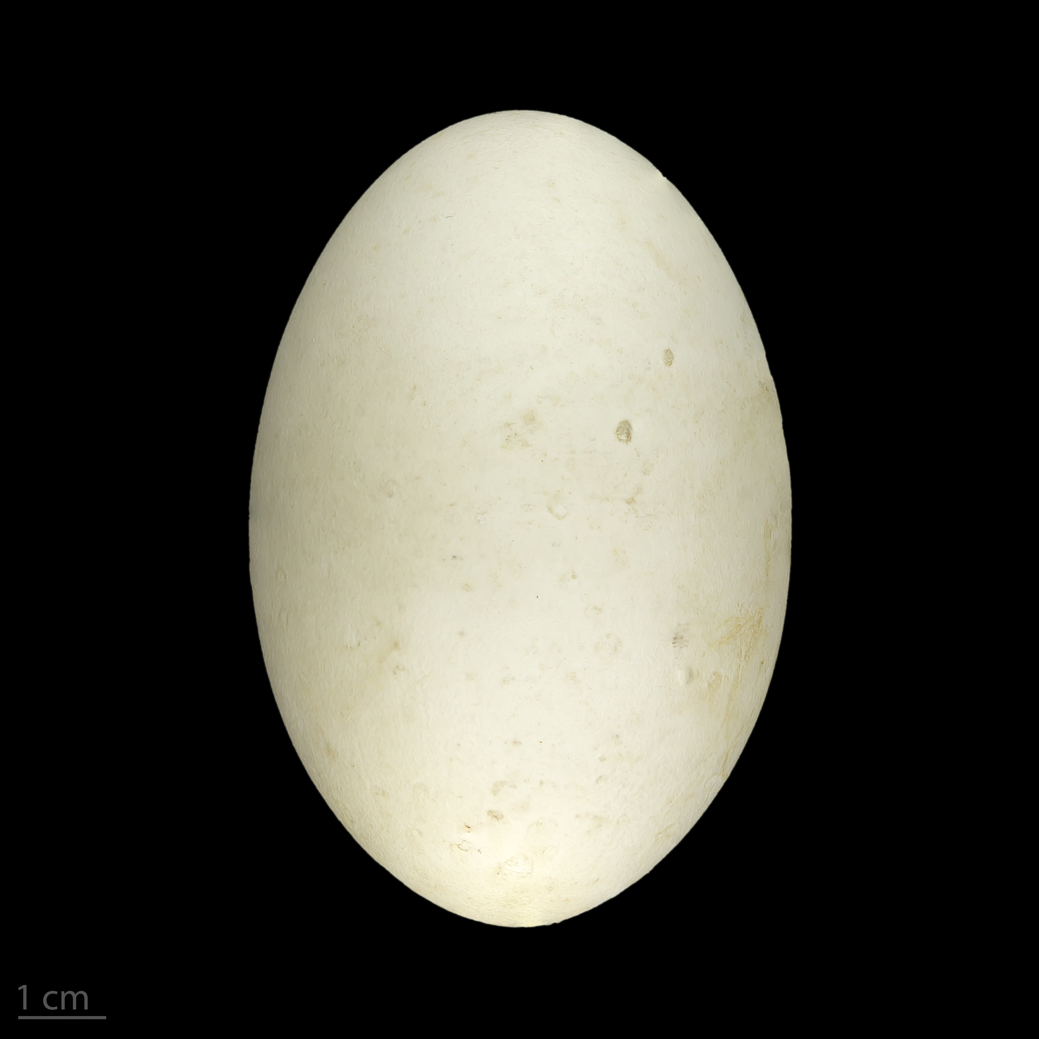 Egg of greater white-fronted goose Collection of Jacques Perrin de Brichambaut.